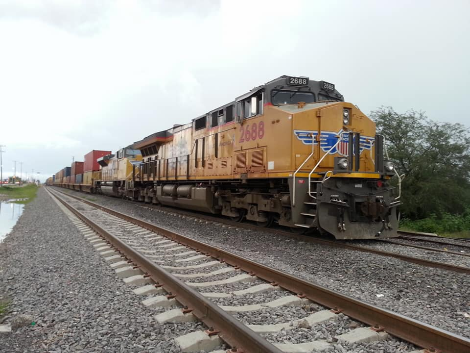 FXE train with two Union Pacific locomotives including a GE Tier 4 and SD70ACe in Mexico